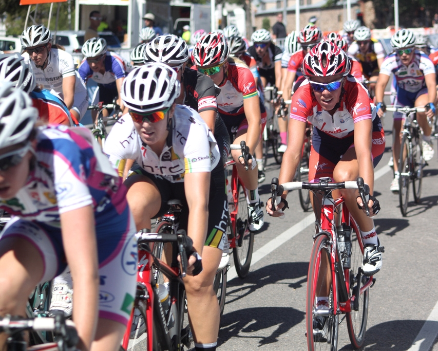 Women TDU